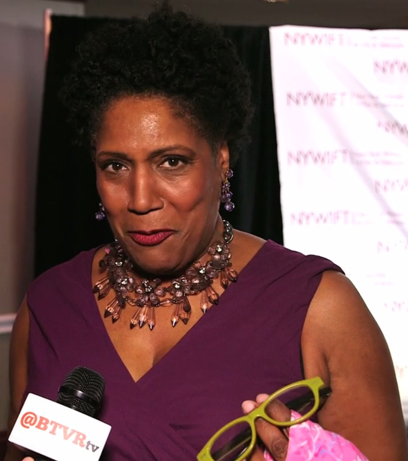 Actress and CBS commentator Nancy Giles talks with Arthur Kade of Behind the Velvet Rope TV about hosting the 35th NYWIFT Muse Awards.